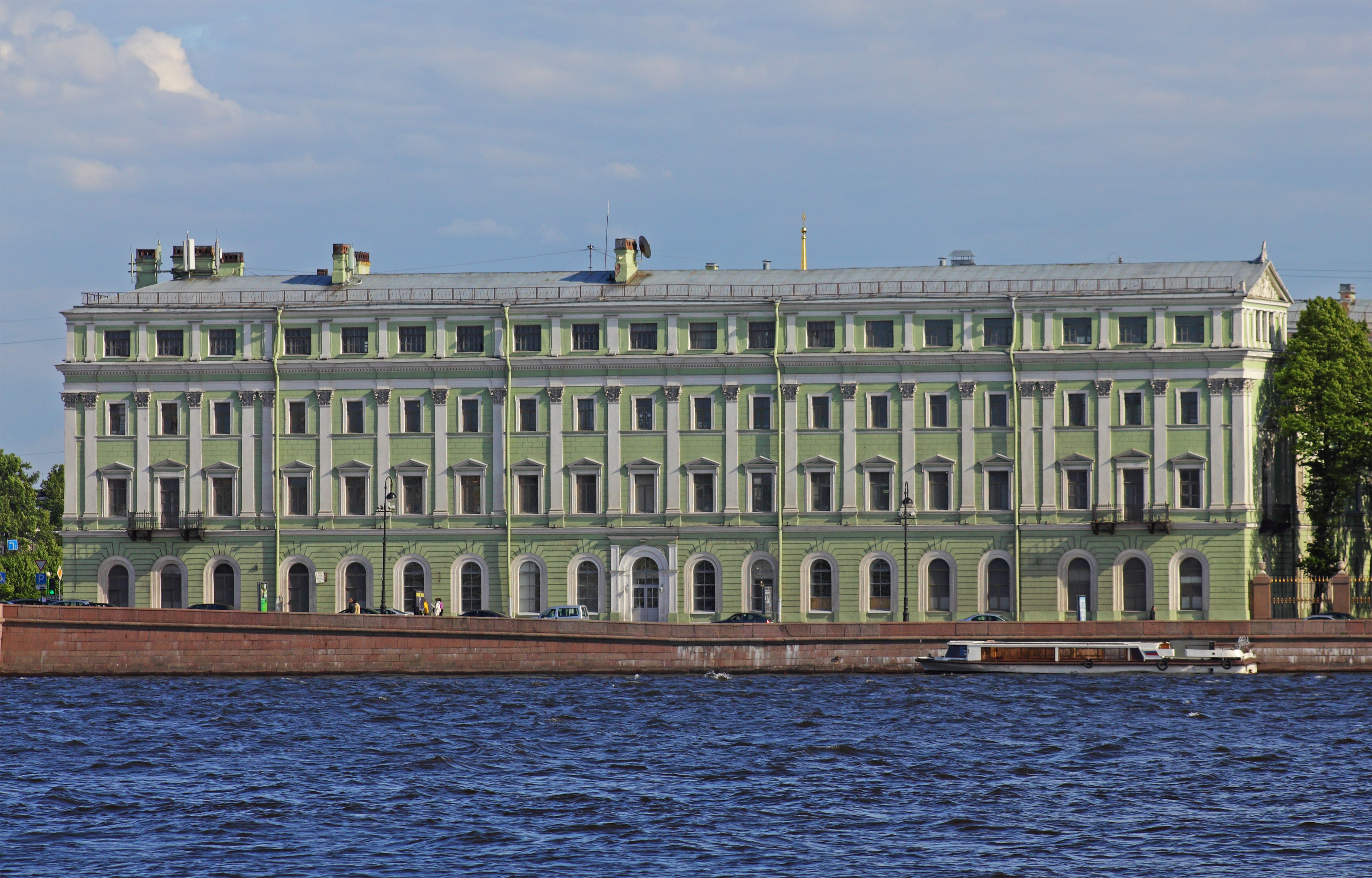 Saint Petersburg, Russia. Palace Embankment, house 6.